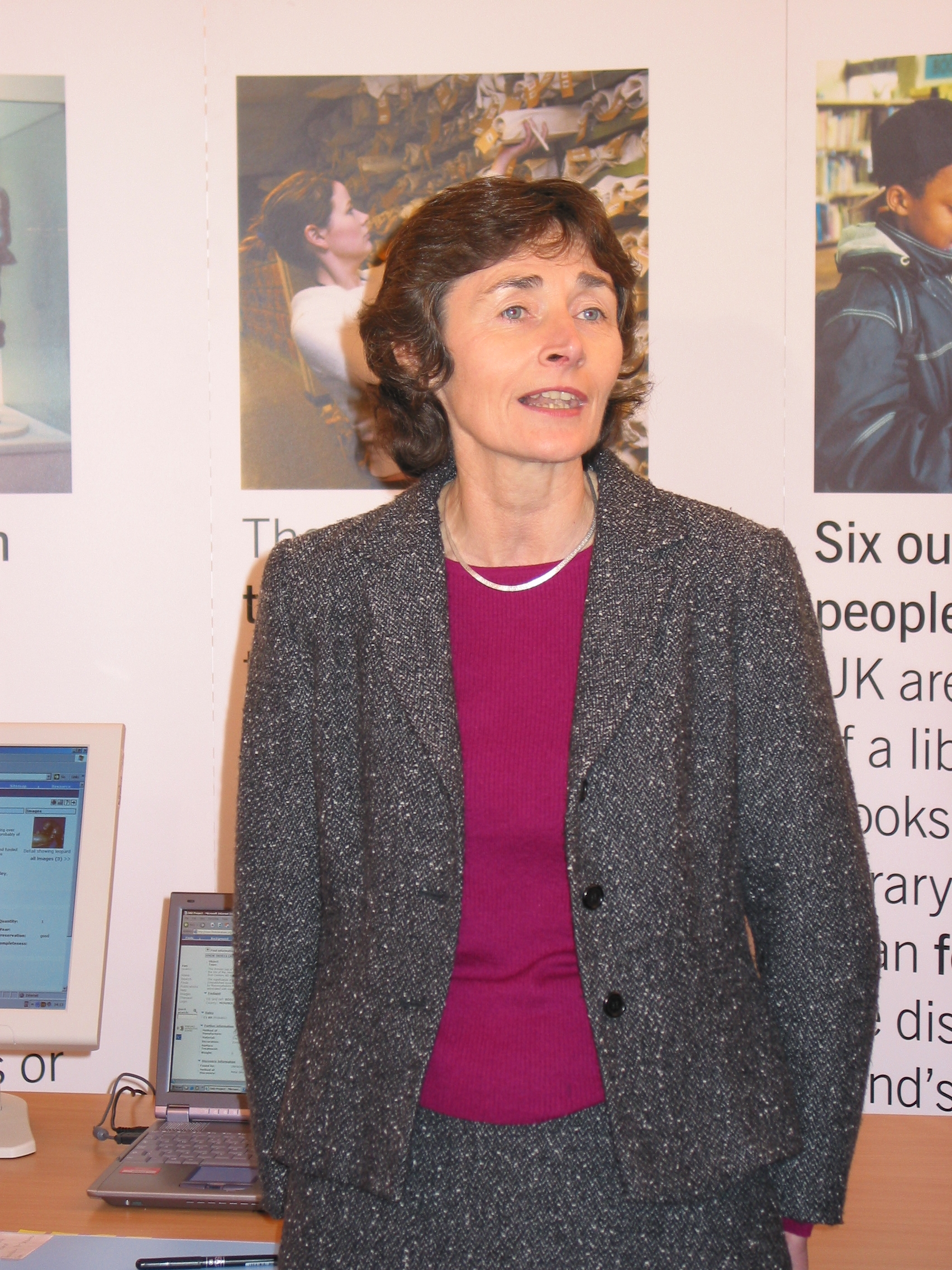 Photography of Estelle Morris, former british Secretary of State for Education